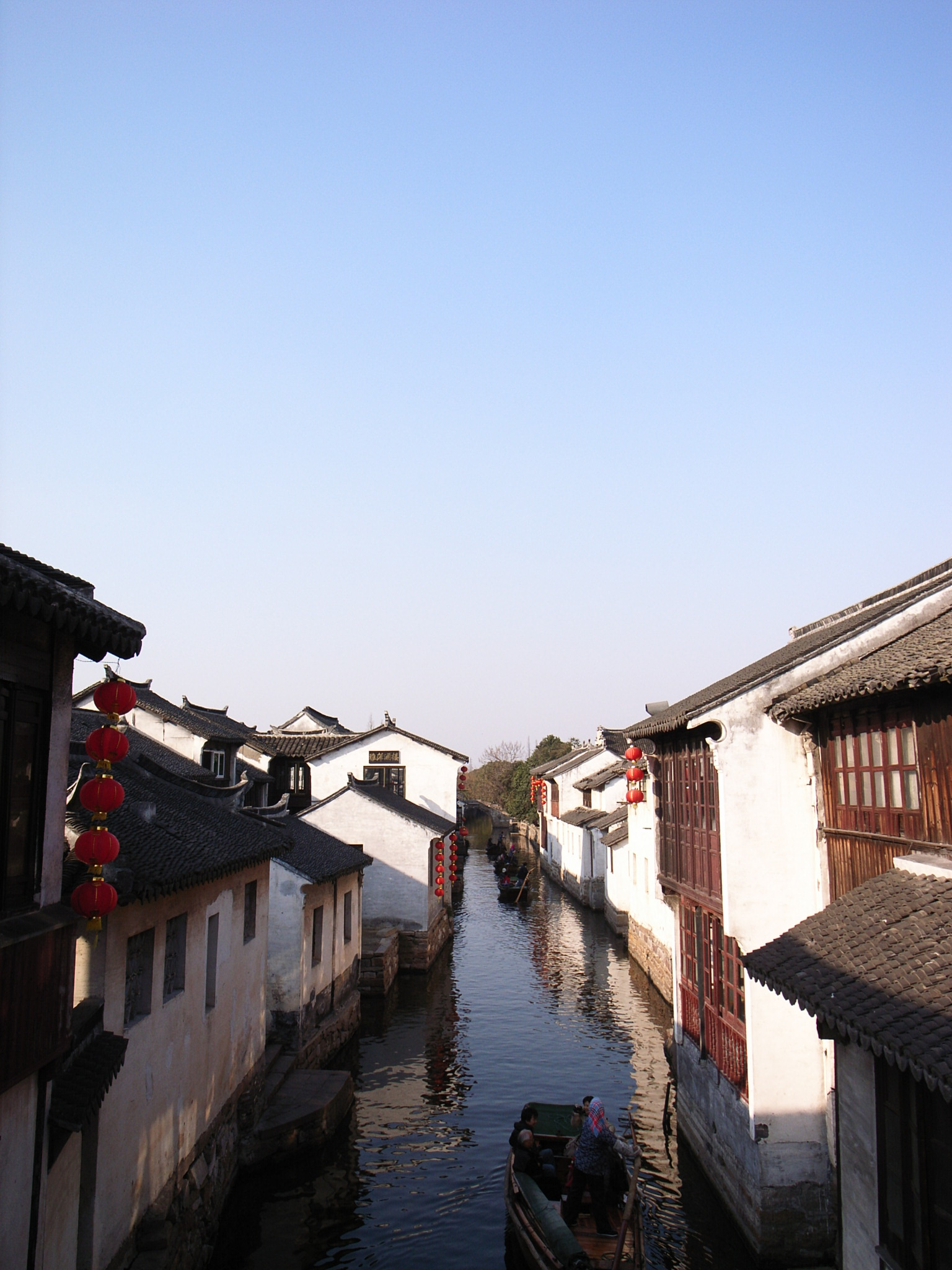 Zhouzhuang, a famous historic town in China.